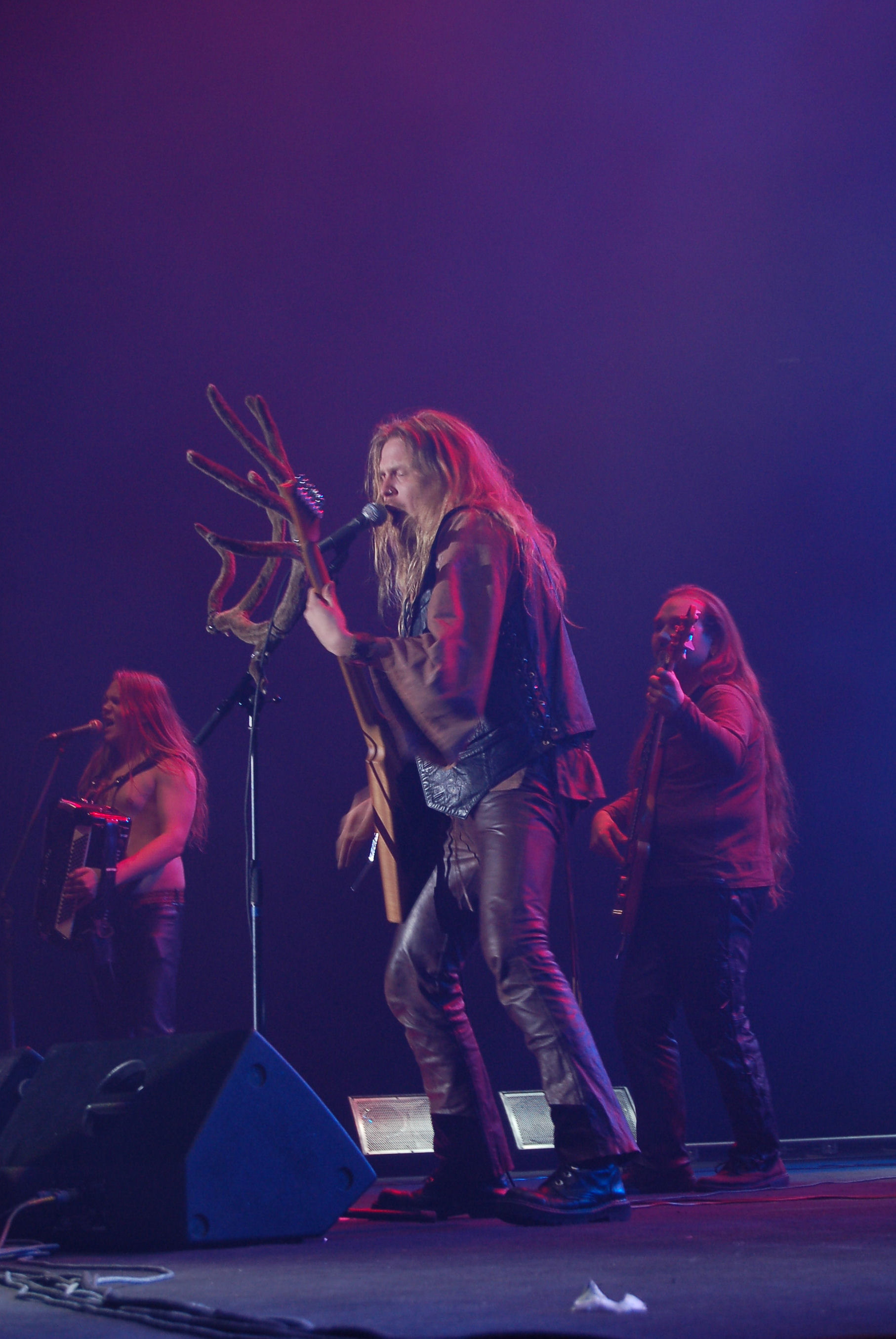 Jonne Järvelä from Korpiklaani during Metalmania 2007 festival